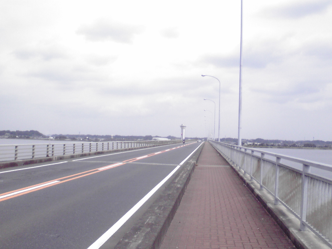 This is Kasumigaura Bridge from Kasumigaura city to Namegata city.